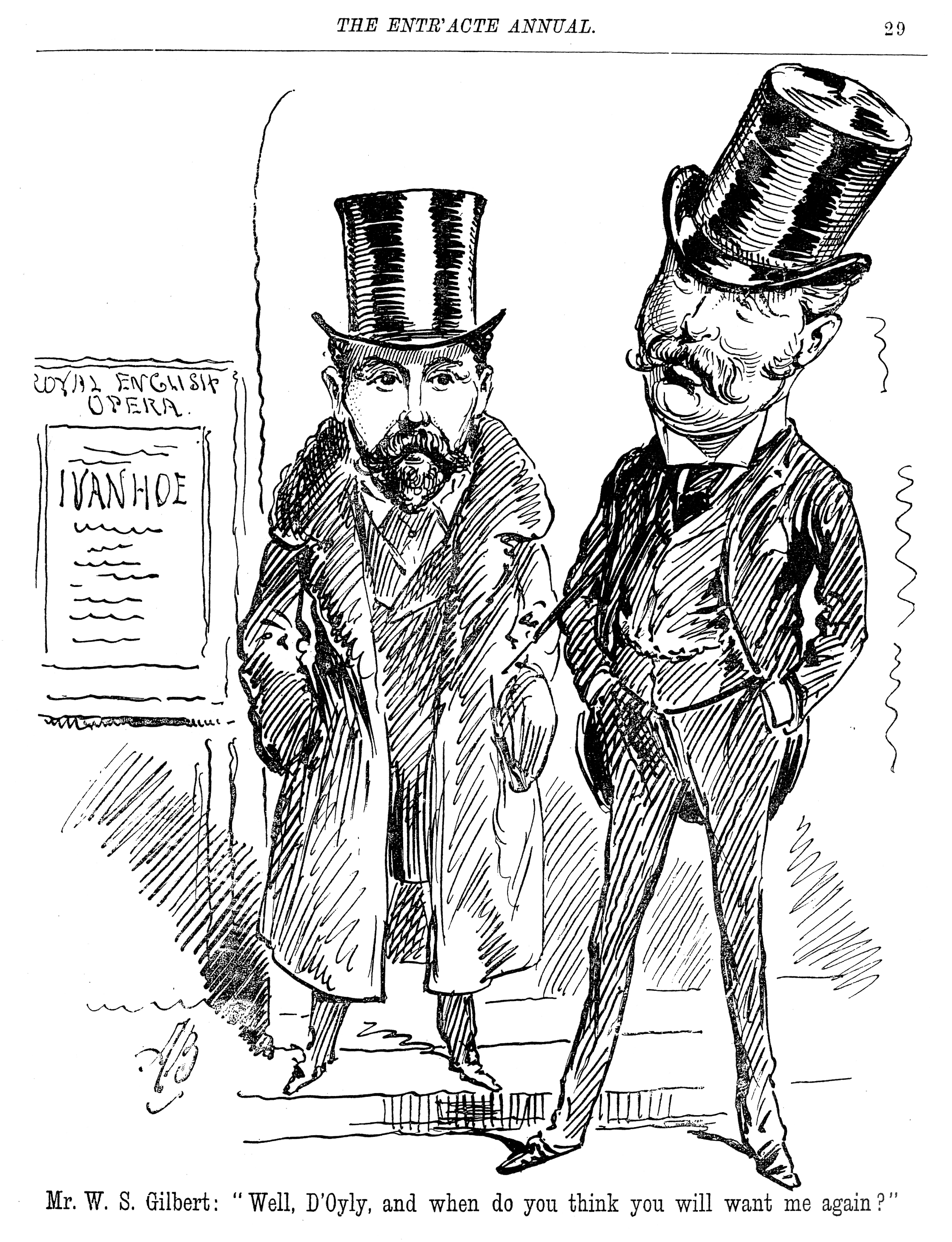 W. S. Gilbert and Richard D'Oyly Carte, after Richard D'Oyly Carte built an opera house to host Sullivan's one grand opera, Ivanhoe, and the Gilbert and Sullivan partnership had temporarily broken up. The exact date of the cartoon (the annual does not give it) would somewhat change its meaning: Ivanhoe was a success, but D'Oyly Carte had nothing to go on after it, and so the opera house had to close, and would eventually fail.